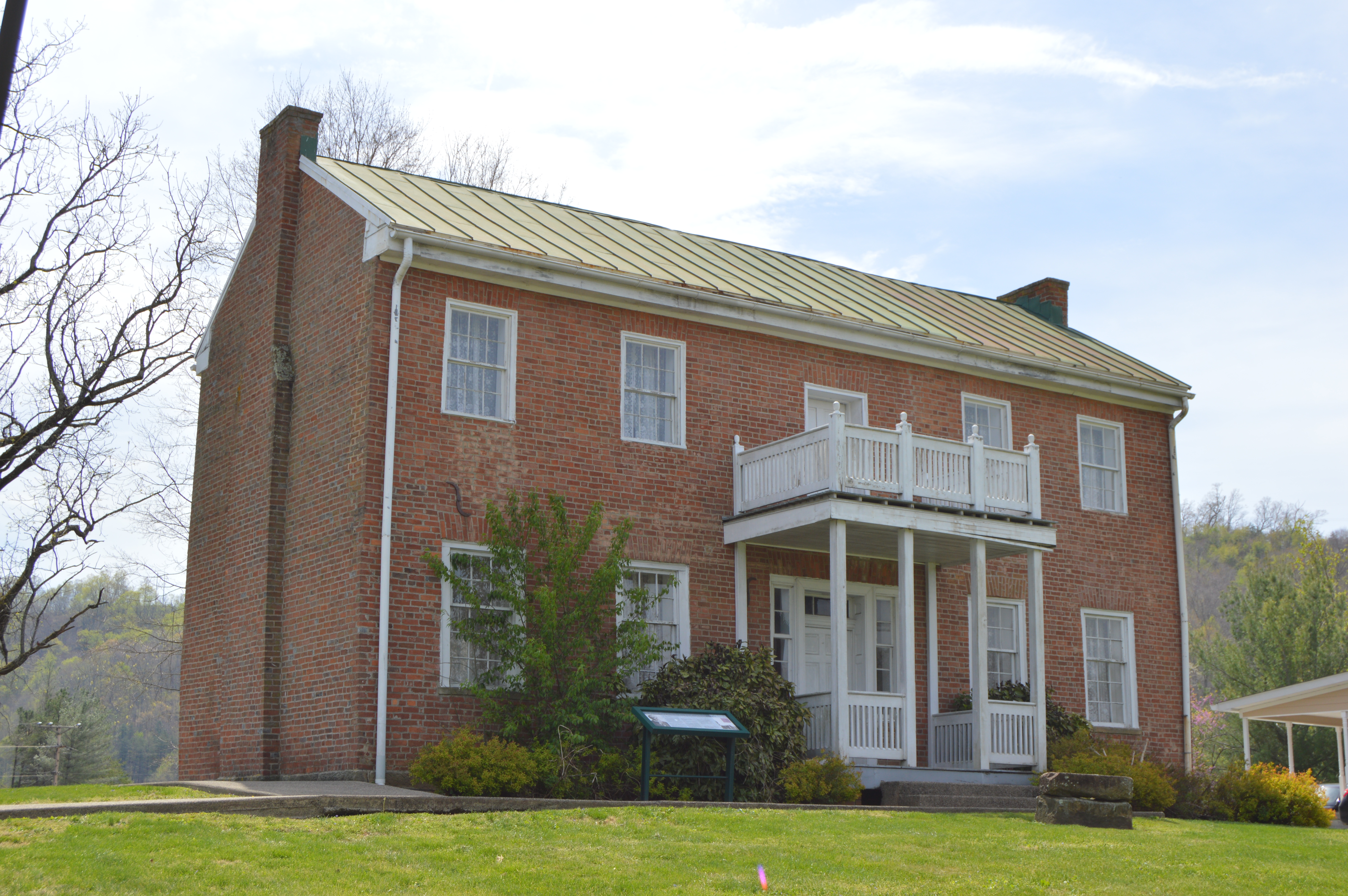 Front of the Samuel May House, located on the western side of Lake Drive (Kentucky Routes 3/321) in Prestonsburg, Kentucky, United States. Built in 1817, it is listed on the National Register of Historic Places.